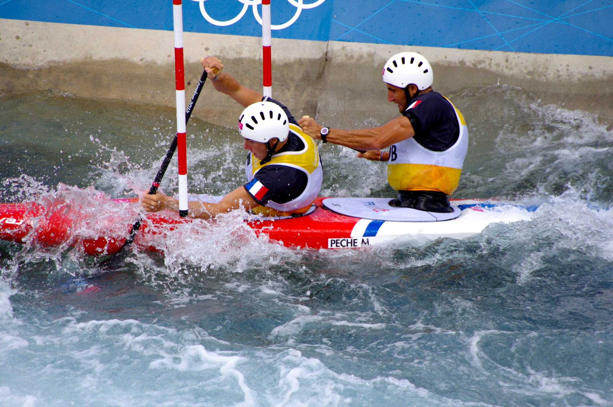 Canoeing at the 2012 Summer Olympics – Men's slalom C-2 Gauthier Klauss (5A) and Matthieu Péché (5B) (FRA)